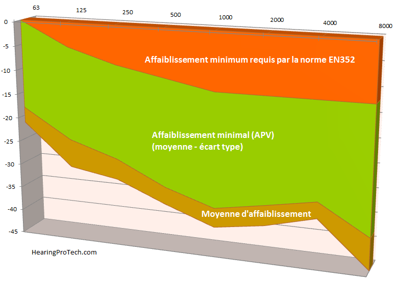 Graphic values ​​impairments of hearing protection against noise with the minimum required by EN352